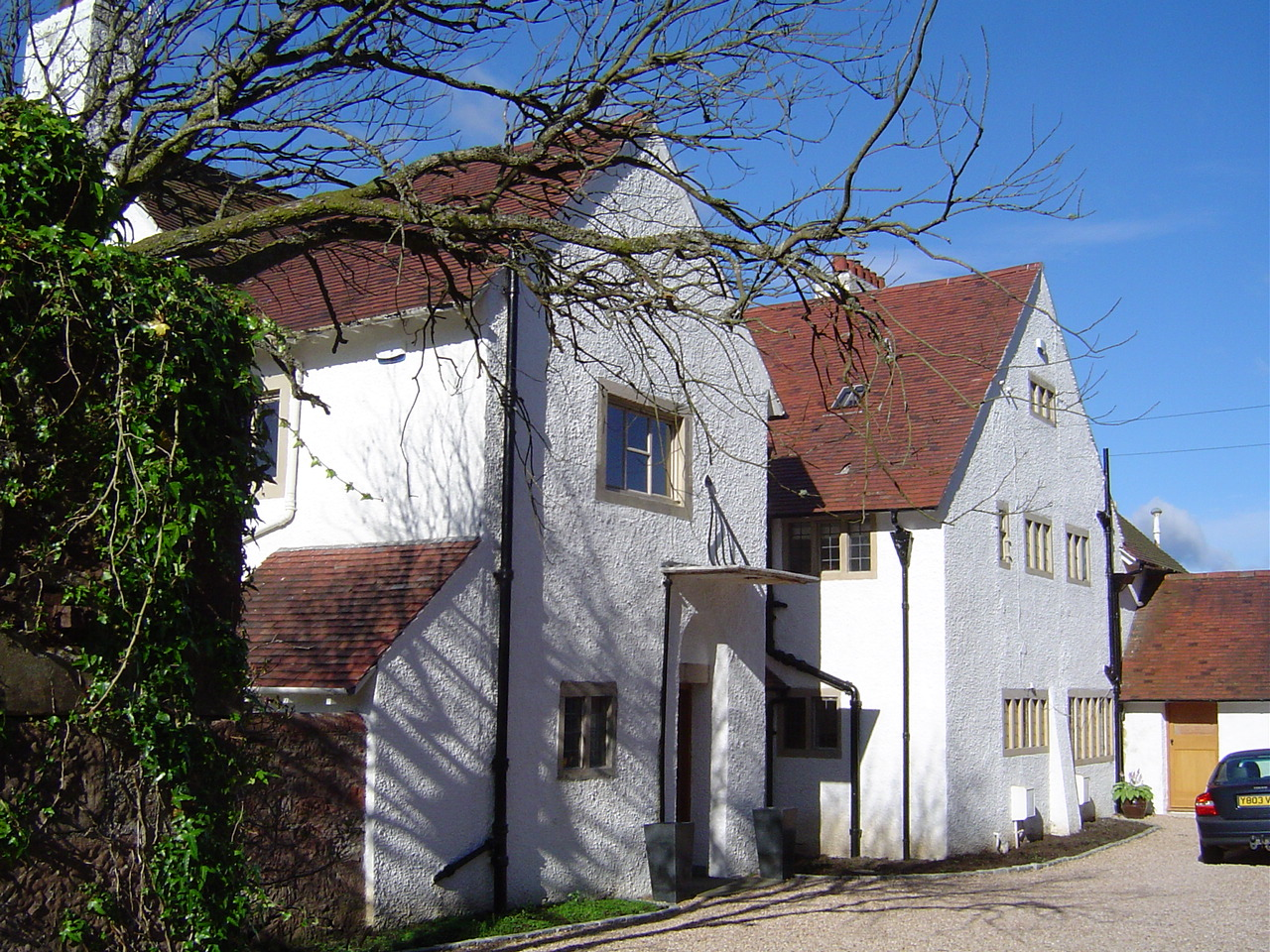 The White House, Upper Colquhoun Street - designed by Baillie Scott